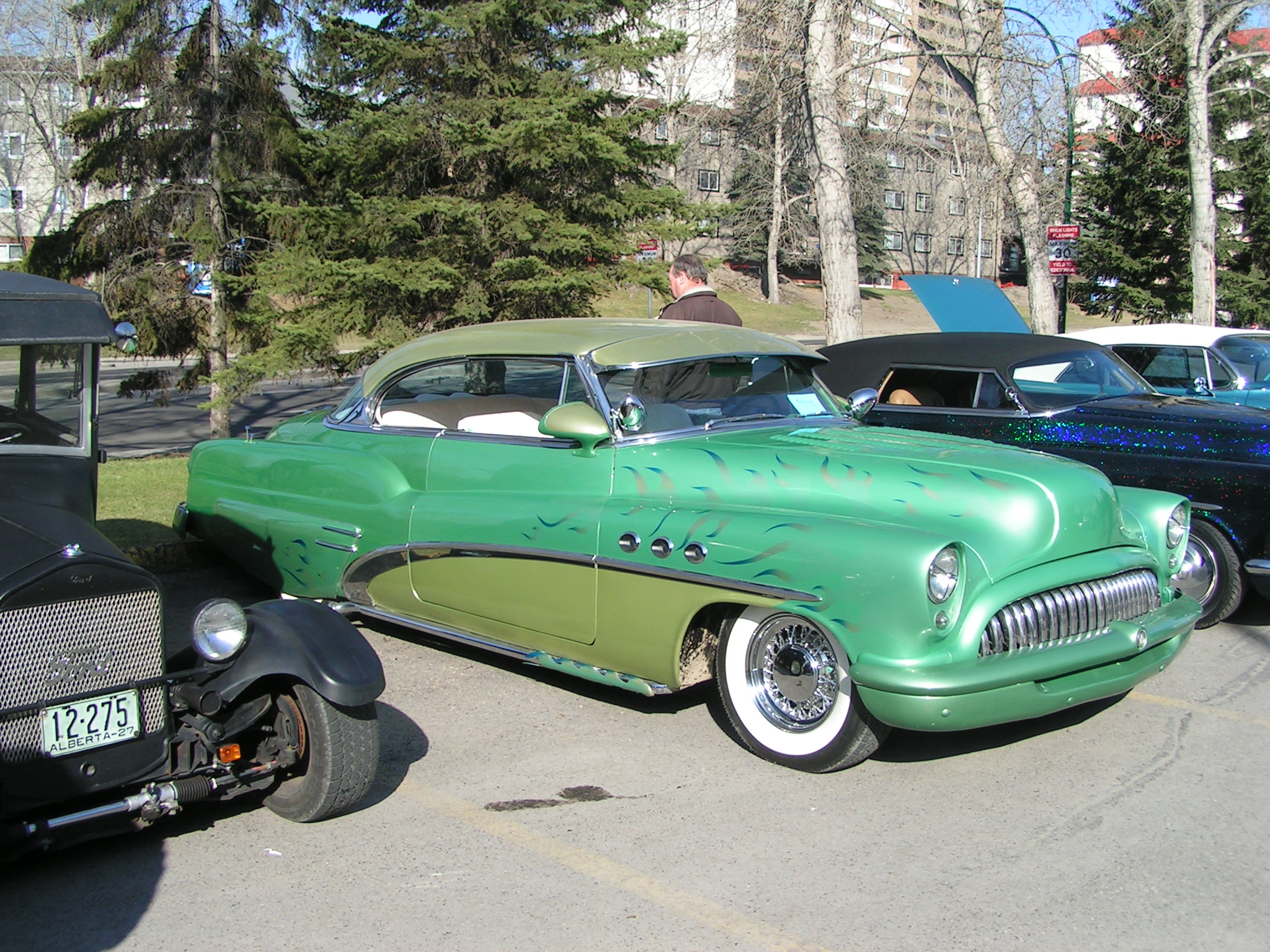 Buick Hot Rod